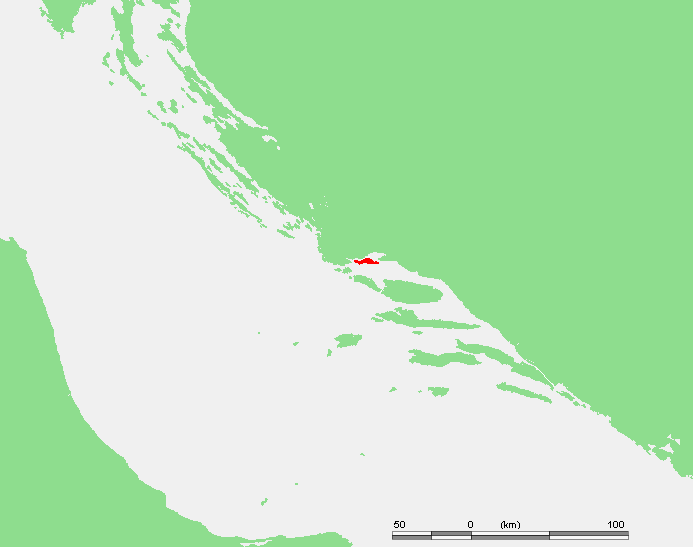 Island of Croatia - Croatia - Ciovo.PNG